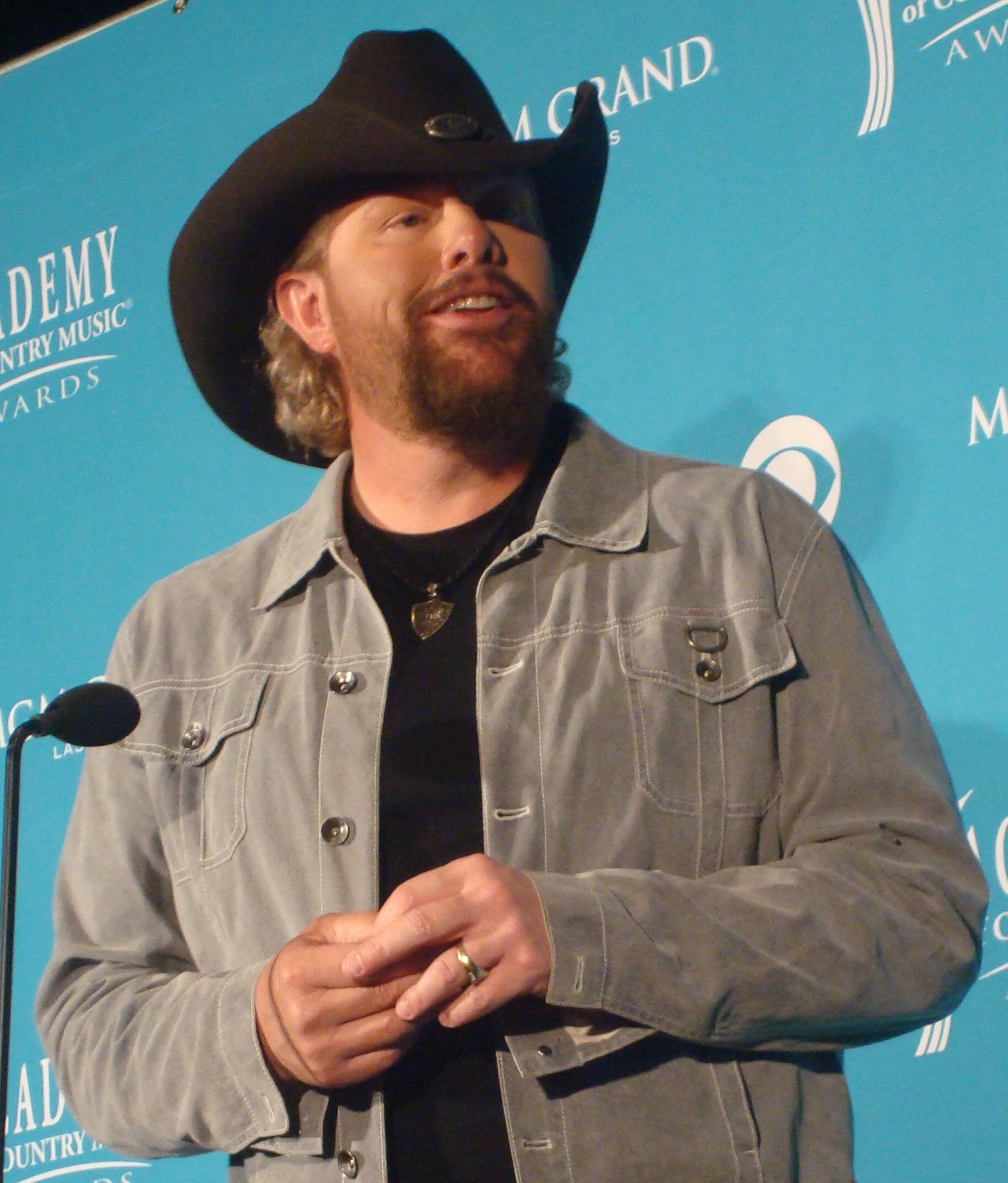 Toby Keith at the 45th Annual Academy of Country Music Awards.